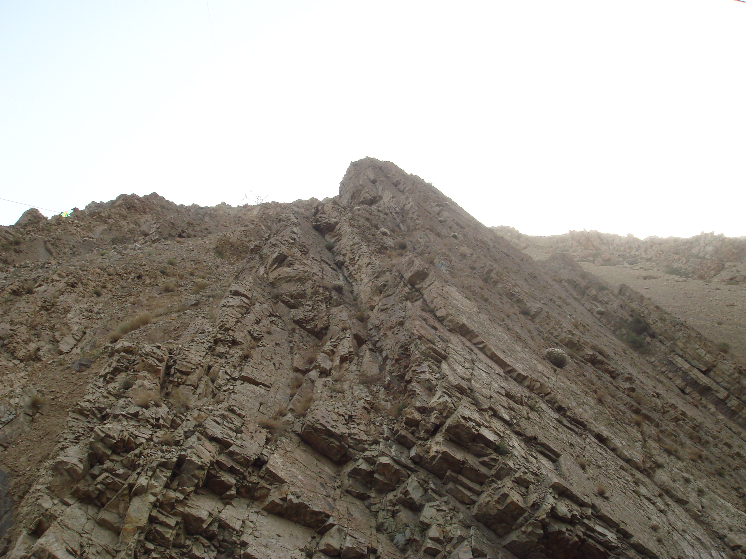 Mountains on the north of Tehran